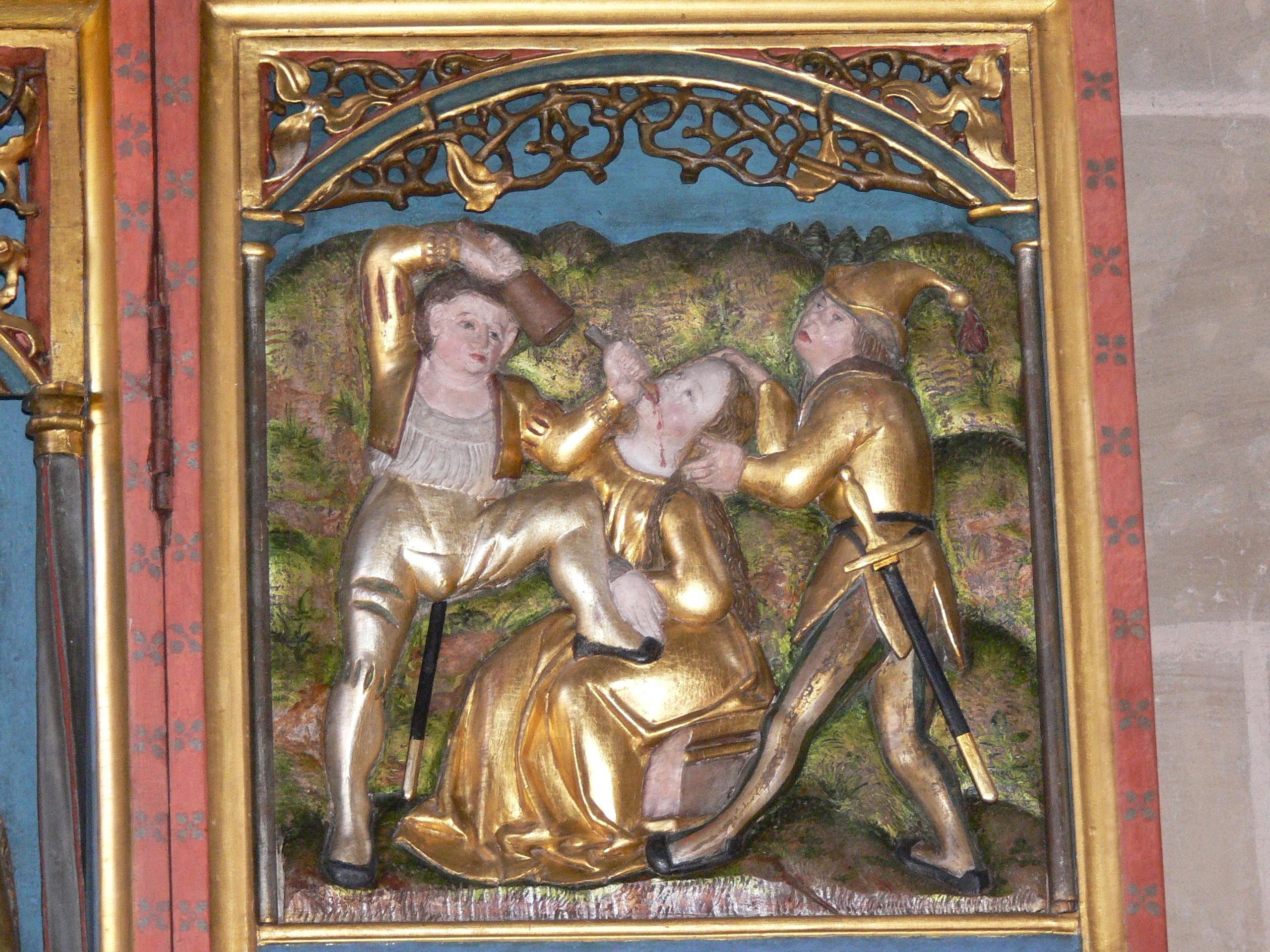 The Martyrdom of Saint Apollonia, Eleven-Thousand-Virgins altar (1513), Münster von Heilsbronn (abbey church of Heilsbronn), Heilsbronn, Bavaria, Germany.